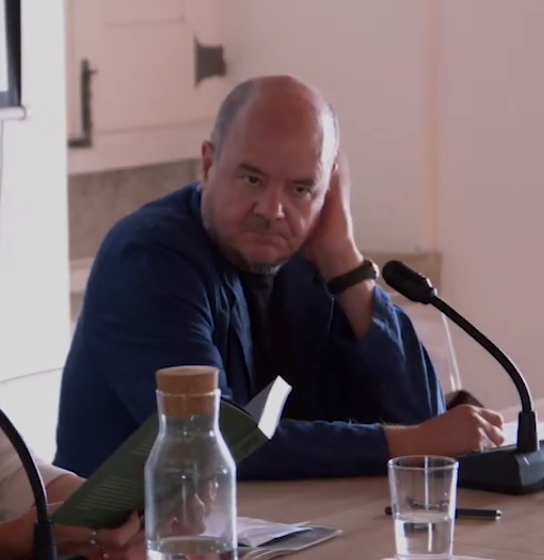 Rui Cardoso Martins, Portuguese writer, journalist, and screenwriter, in FOLIO - Óbidos International Literary Festival, Portugal, 2019